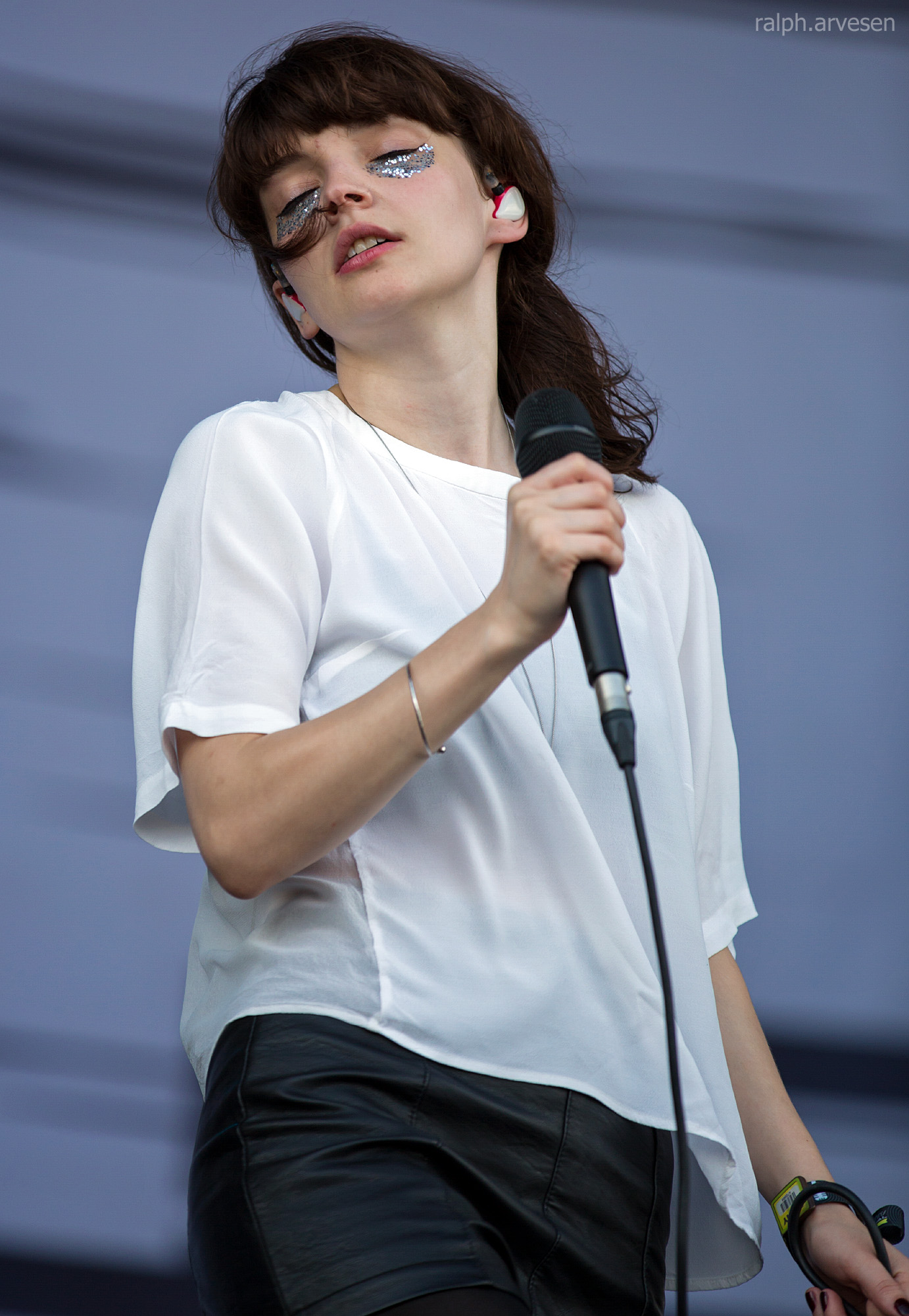 Chvrches performing at the Austin City Limits Music Festival in Austin, Texas, 2014-10-10.